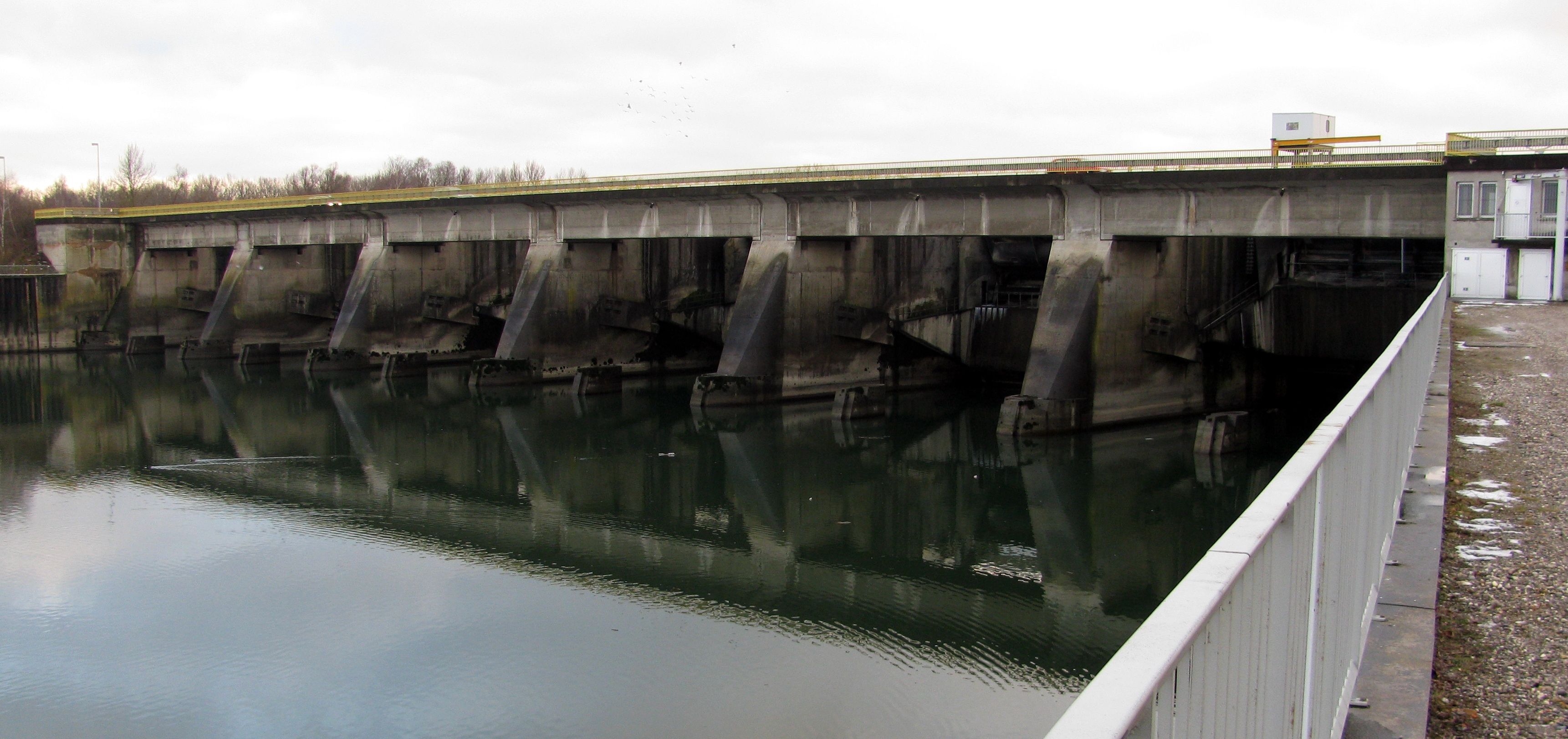 Staustufe Rheinau-Gambsheim; weir or spillway, between Gambsheim (France) and Freistett (Germany)